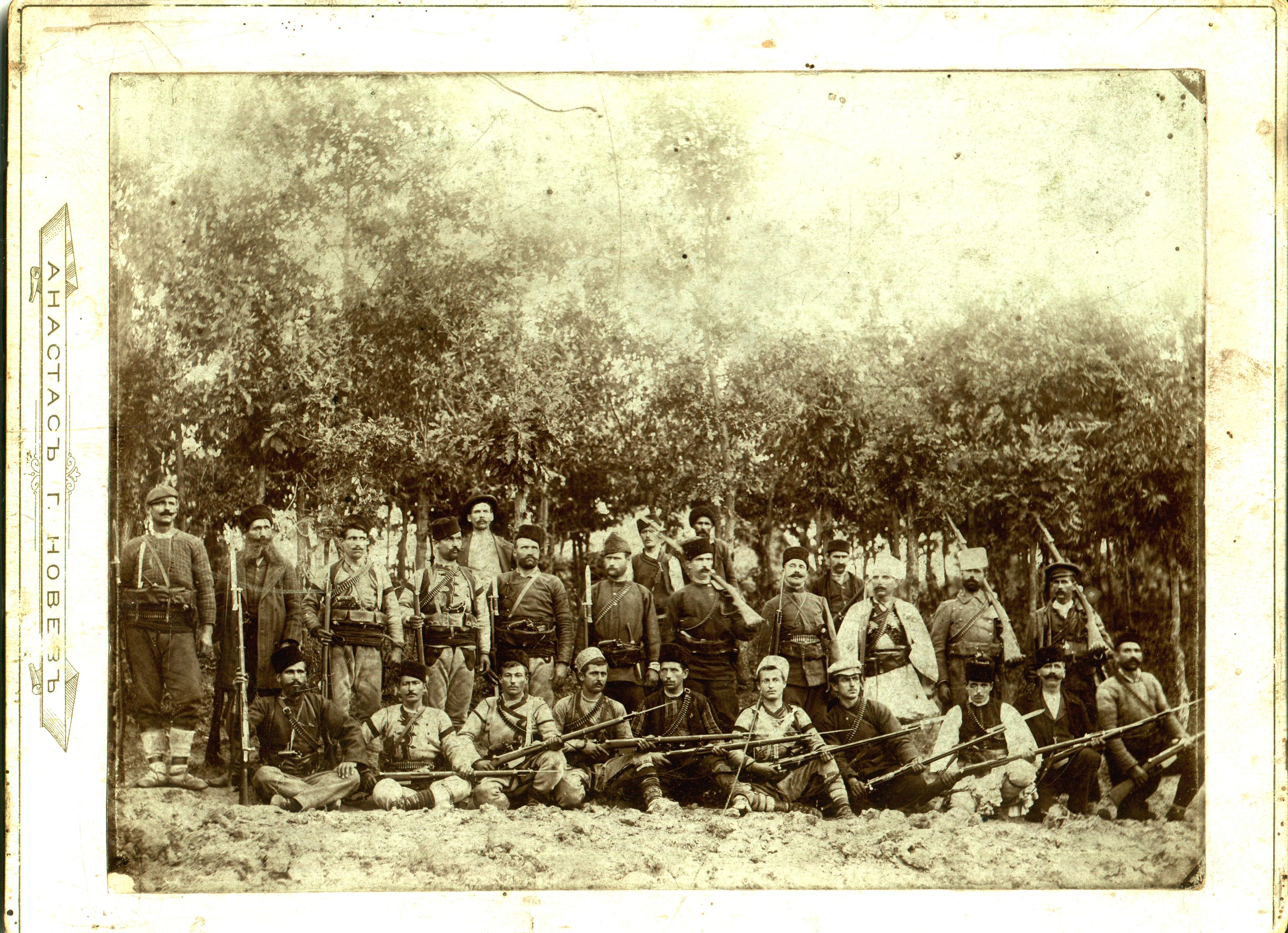 Cheta of IMARO revolutionary Stefan Nikolov from Bosvinia, Kostur region